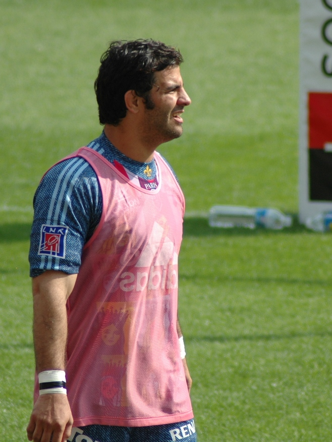 Mathieu Blin